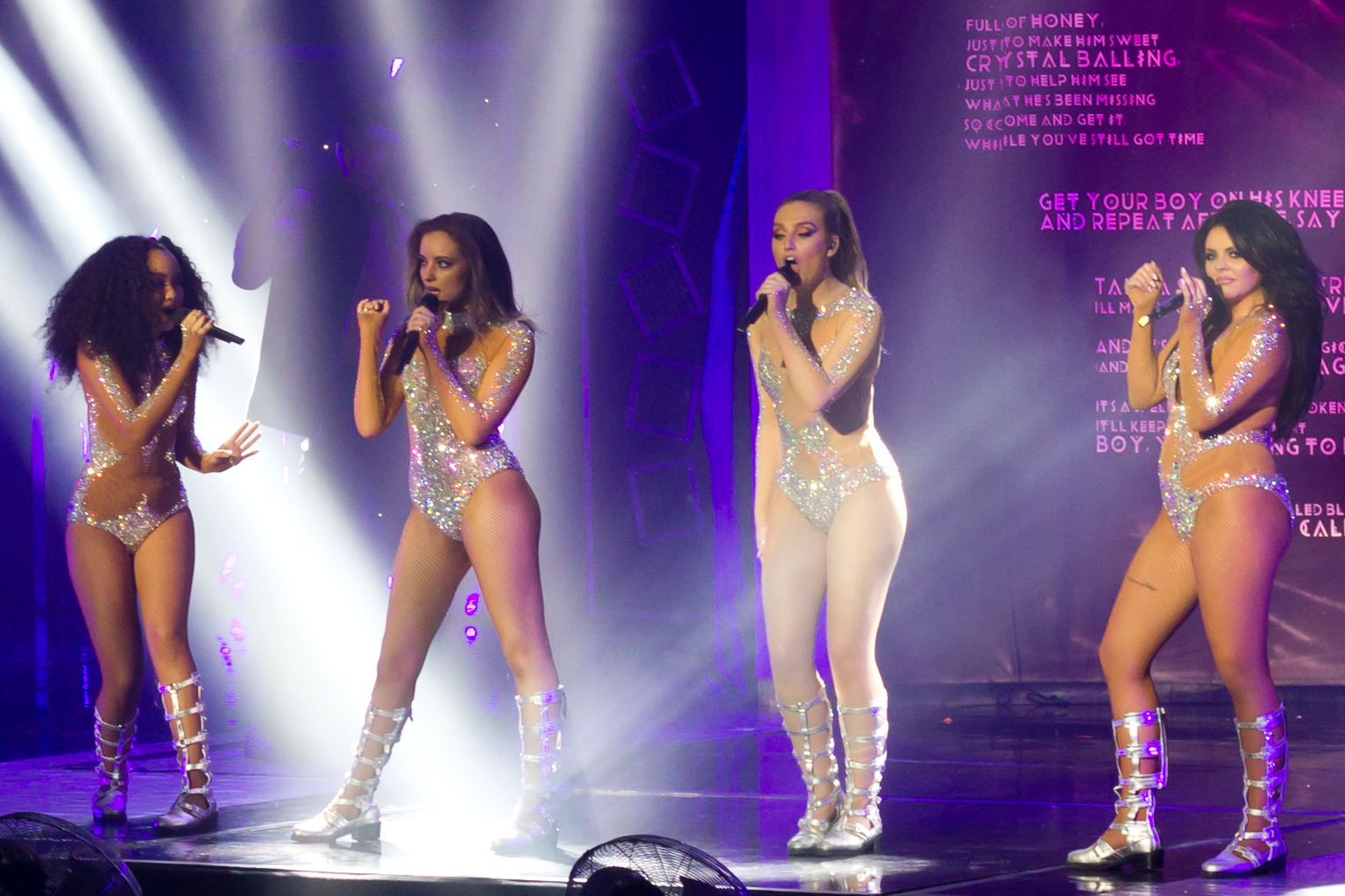 Little Mix